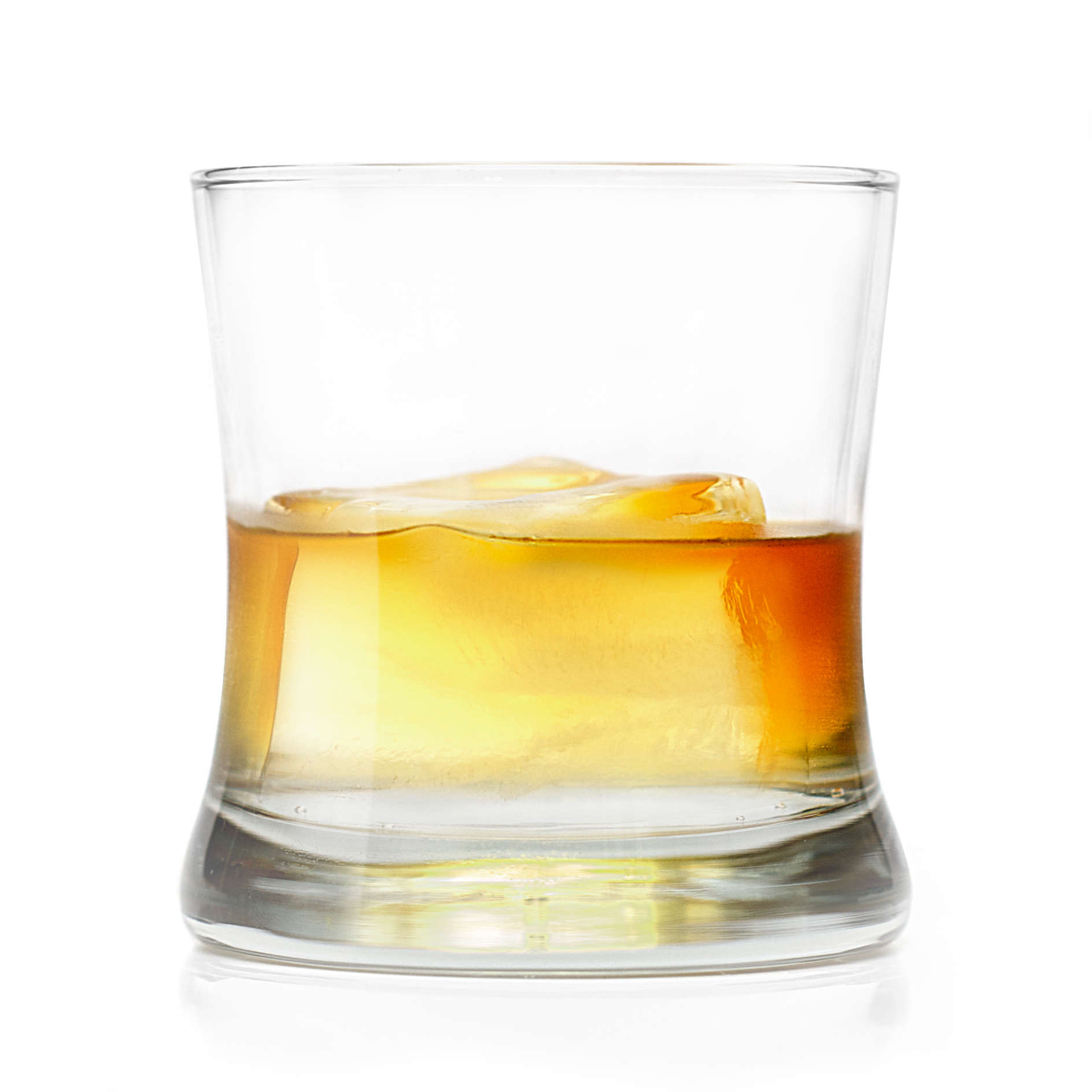 Whiskey in a rocks glass over a single cubical ice cube on a white background.